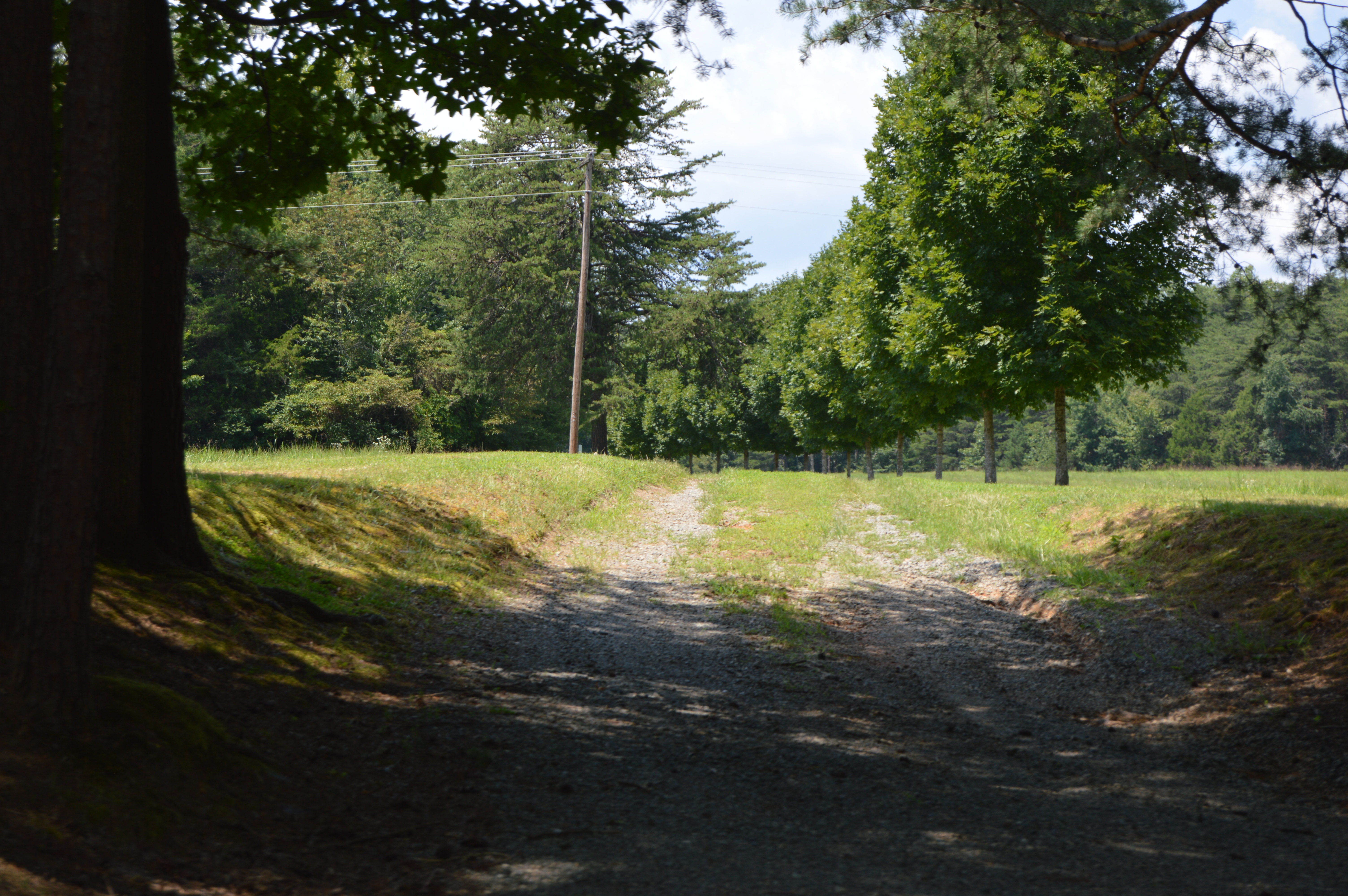 Entrance to Little River Farm, located at 2729 Diggstown Road southwest of Bumpass in Louisa County, Virginia, United States. The estate is listed on the National Register of Historic Places.